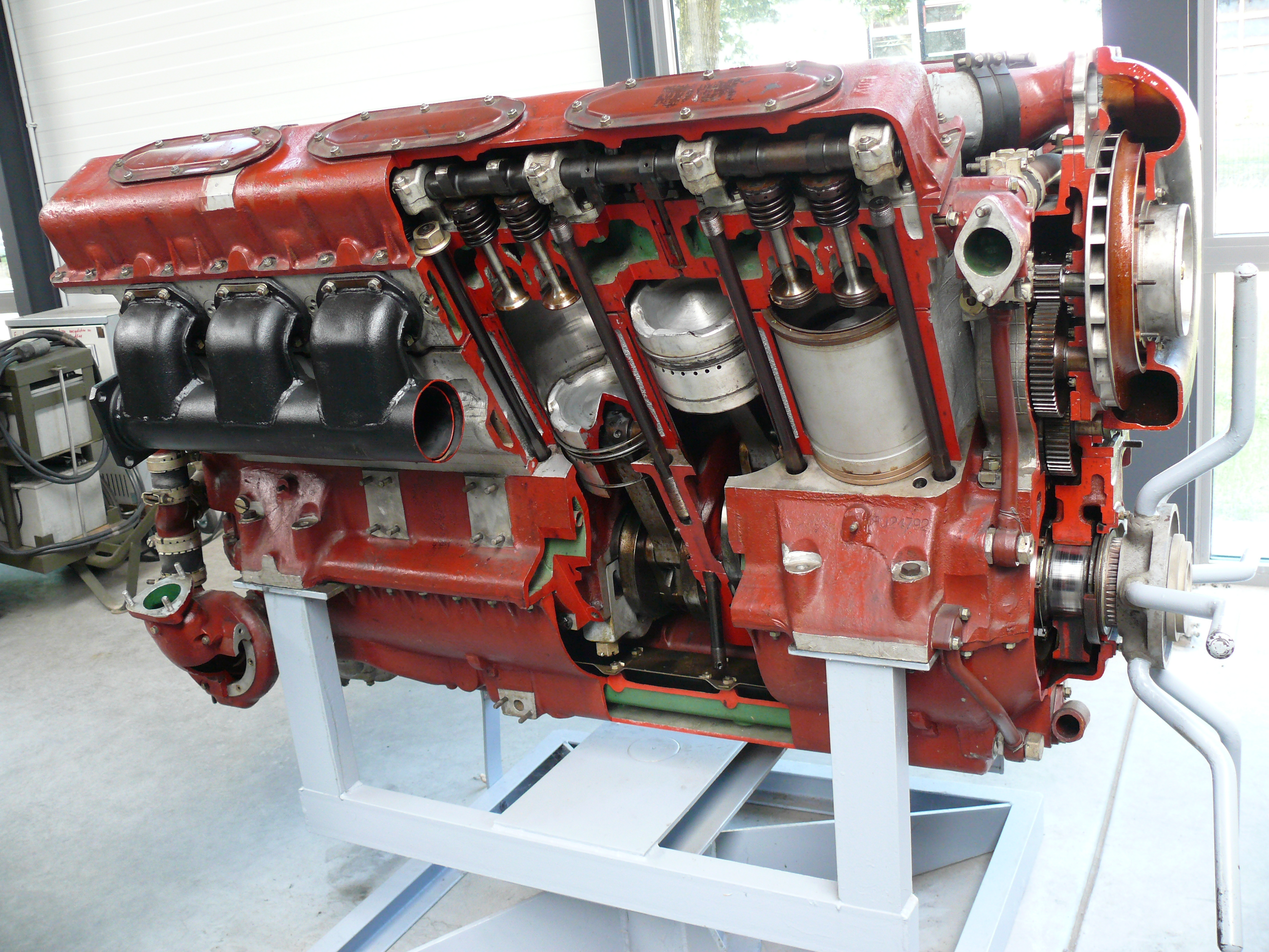 A sectional Model of the W-46-6 Engine of the T-72 Main Battle Tank. German Tank Museum, Munster.